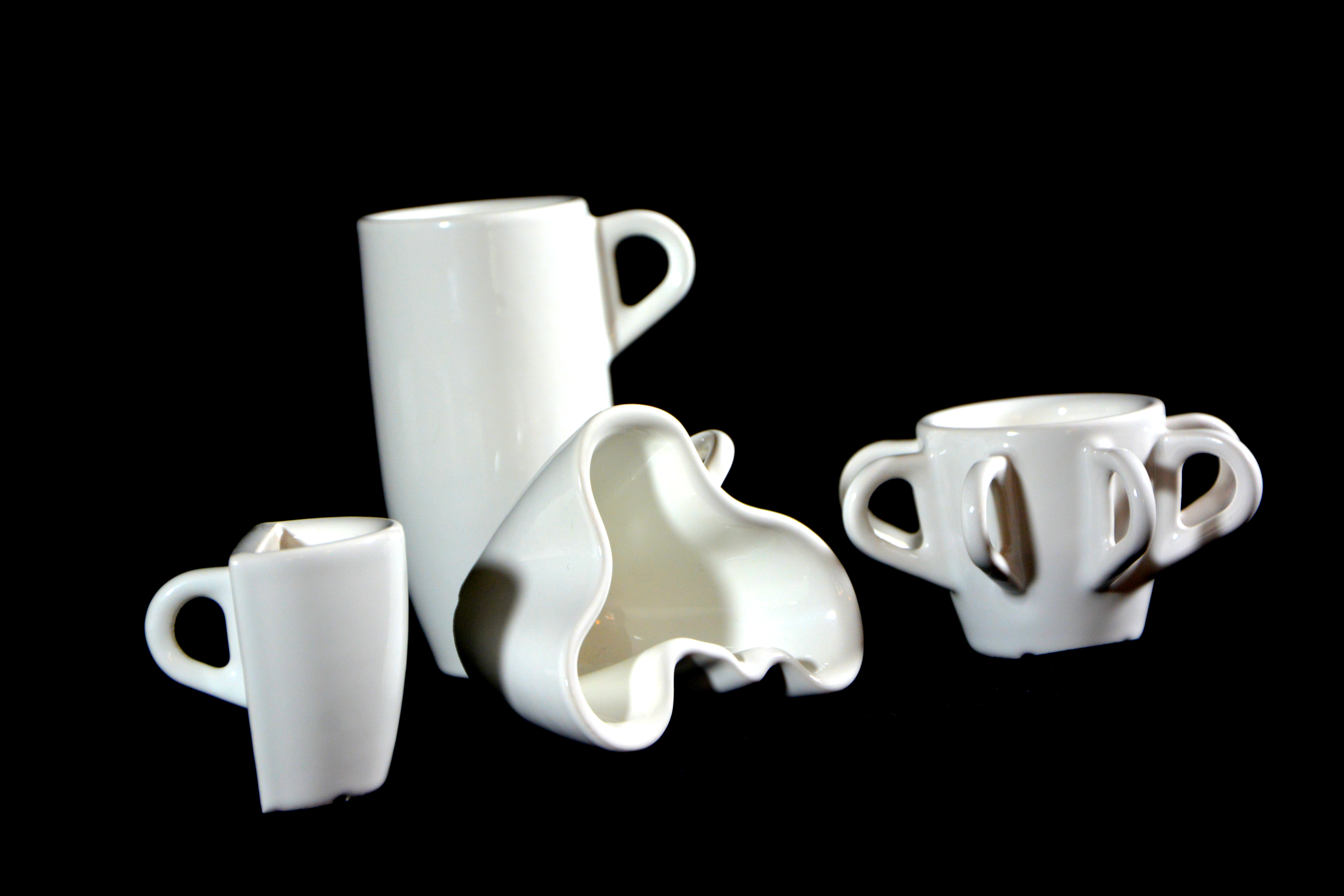 This is a file created at the museum: Ceramic Museum in Andenne